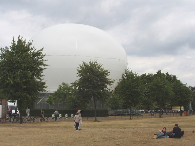 Serpentine Gallery Pavilion 2006 by Koolhaas and Balmond. An inflatable canopy floats over the pavilion on the lawn of the gallery. The 2006 pavilion is designed by Rem Koolhaus and Cecil Balmond, with Arup. The canopy can be raised and lowered according to the state of the weather. In some lights it almost merges into the sky. Each summer the gallery commissions distinguished architects who have not worked in Britain to design a temporary pavilion used as a teahouse and for performances and meetings, some associated with Promenade concerts.